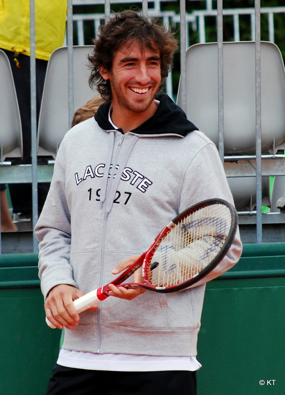 Pablo Cuevas about to start his 1st round match with Lukas Dlouhy, against Maximo Gonzalez & Kei Nishikori. Roland Garros 2011.